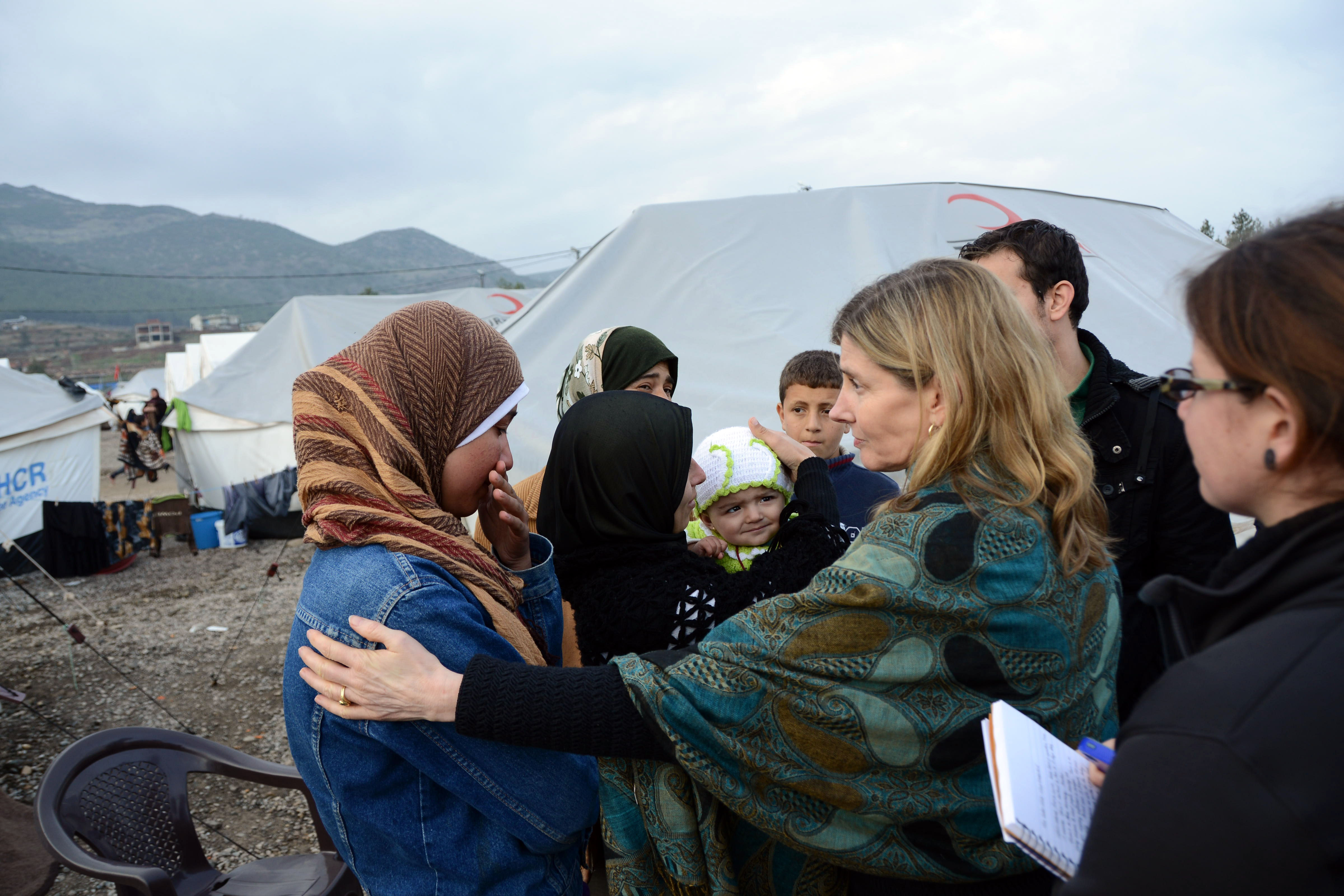 USAID Assistant Administrator for Democracy, Conflict, and Humanitarian Assistance Nancy Lindborg interacts with Syrian refugees at Islahiye Refugee Camp in Turkey on January 24, 2013. [State Department photo/ Public Domain]